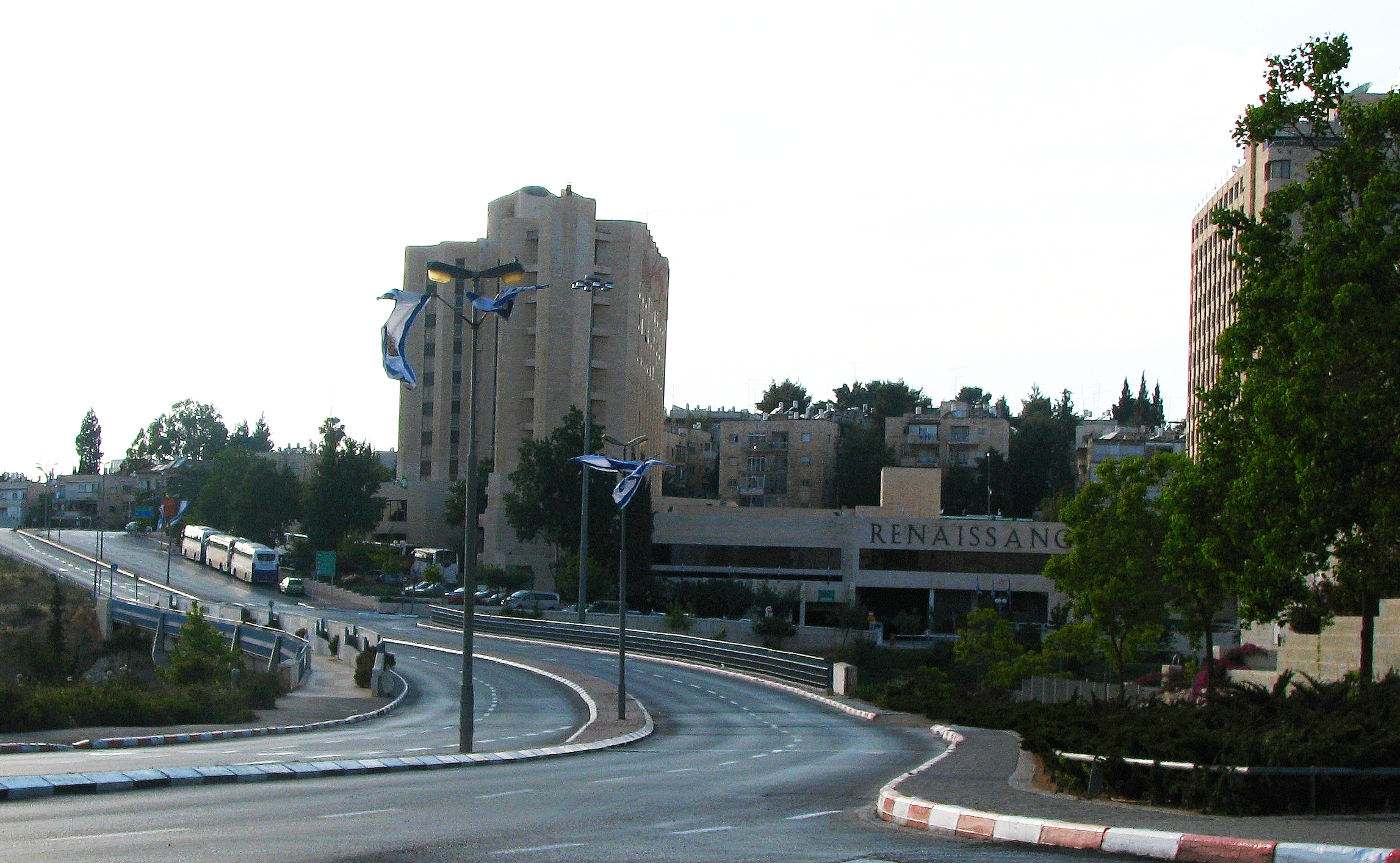 Road to Kiryat Moshe, Jerusalem, passing Hebrew University and hotel district.